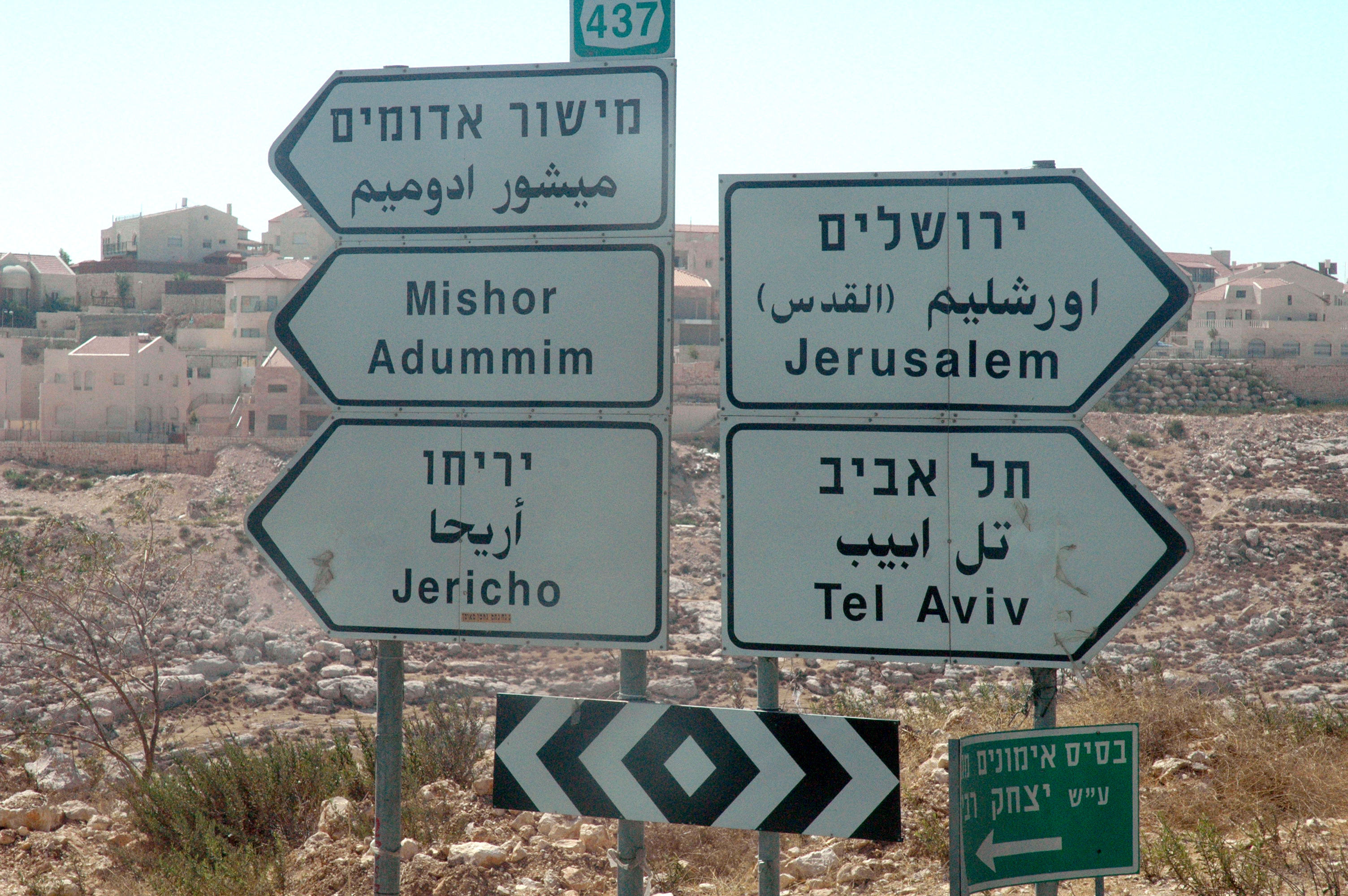 Palestine, East Jerusalem, Pisgat Ze'ev settlement and Road 437 Ramallah/Jerusalem in the Judean Desert. Israeli settlements and military base in the west bank. The caption "Life in occupied Palestine." makes no sense in the context of this image, as the photograph doesn't illustrate "life" of any kind, and there is no information as to the exact location of the image. Cary "Bastique" Bass parler voir 15:48, 8 September 2006 (UTC)